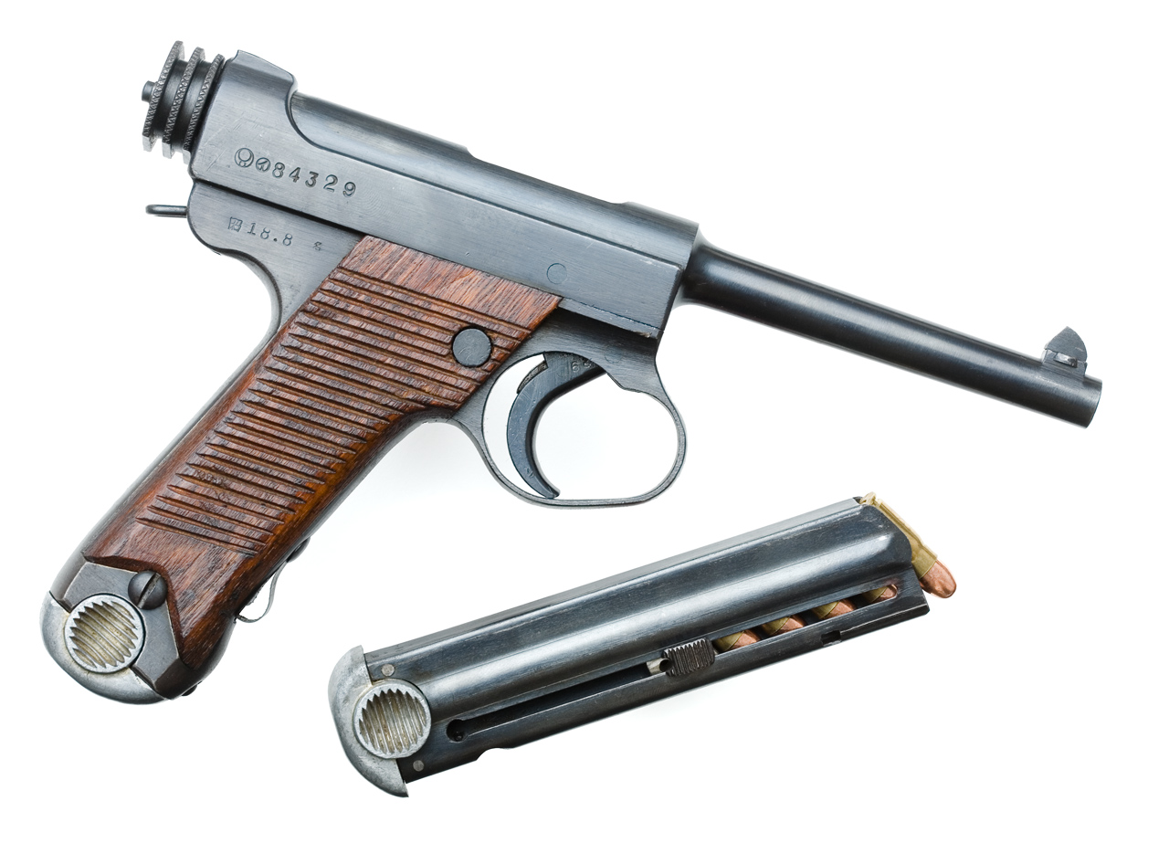 Nambu 8mm pistol